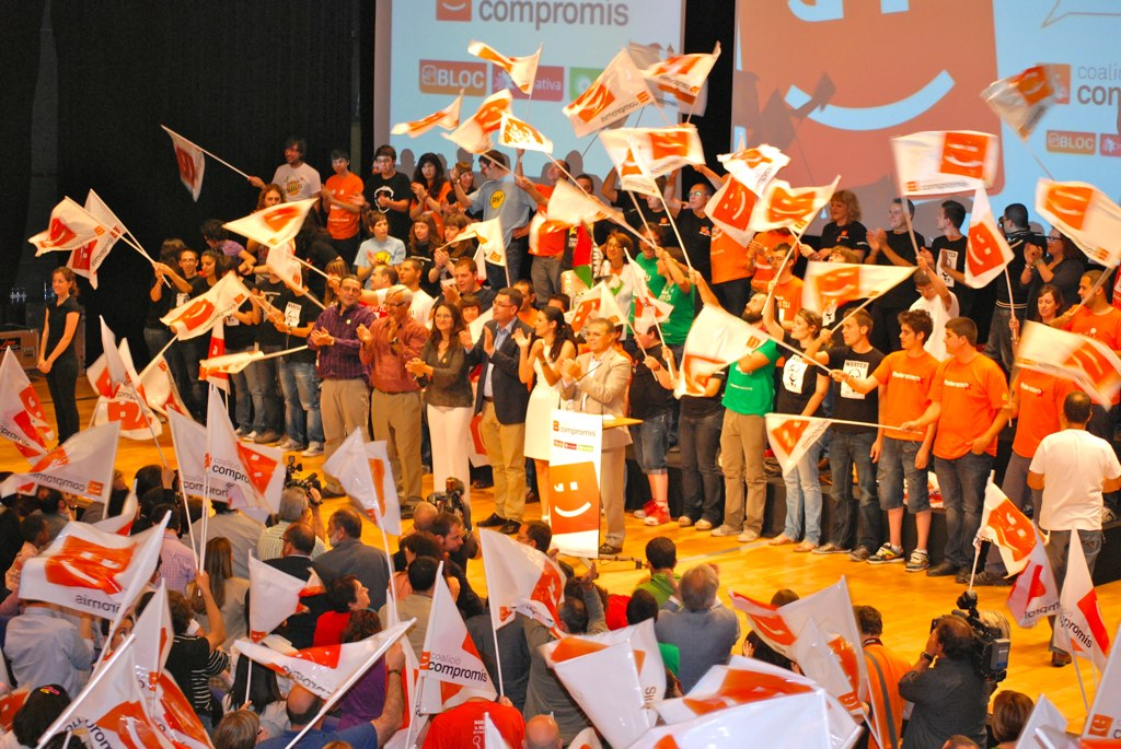 Political meeting Coalició Compromís